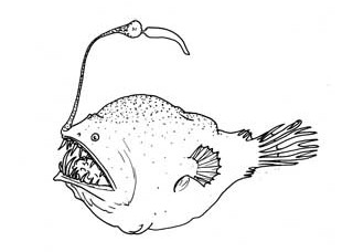 Drawing of the leftvent anglerfish, Acentrophryne dolichonema